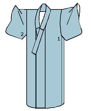 Men's Kimono do not have Miyatsuguchi (1) nor Furiyatsuguchi (2) as women's Kimono do. Stylized view of men's Nagagi, which is one of Kimono.